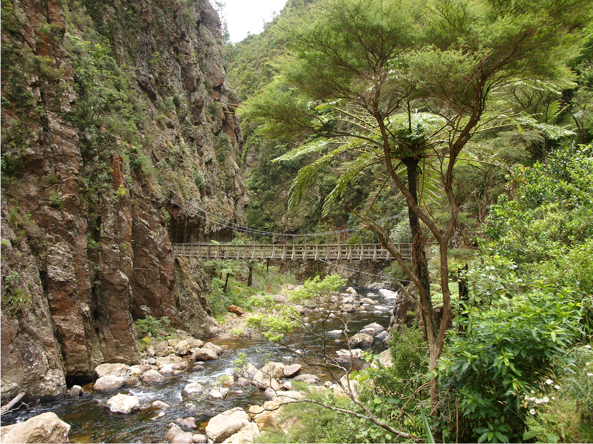 Karangahake Gorge, Coromandel Peninsula, North Island, New Zealand